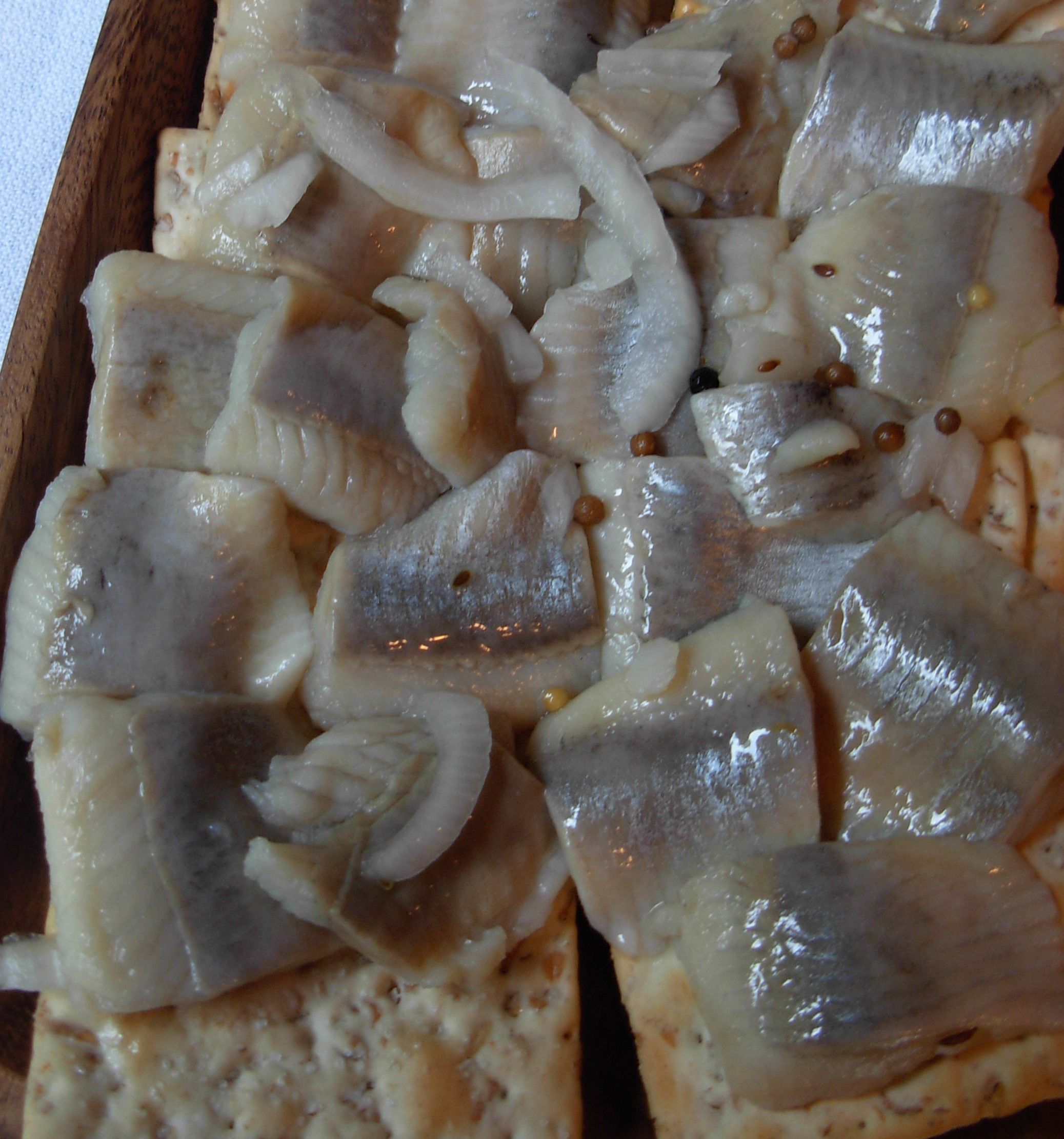 Pickled herring with onions on crackers.